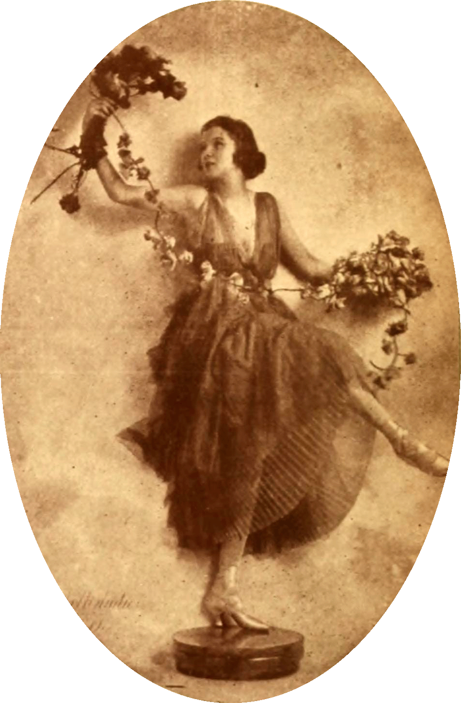 Advertisement in The Moving Picture World